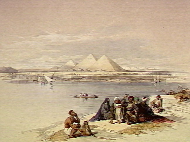 Pyramids at Gîza, seen from the banks of the Nile, Egypt. Coloured lithograph by Louis Haghe after David Roberts, 1846. Iconographic Collections Keywords: David Roberts; Louis Haghe